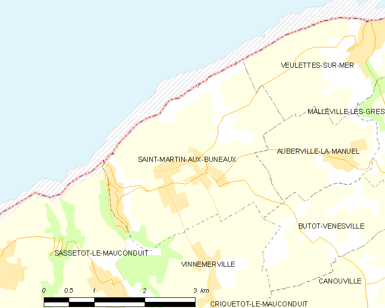 Map of French municipality Saint-Martin-aux-Buneaux